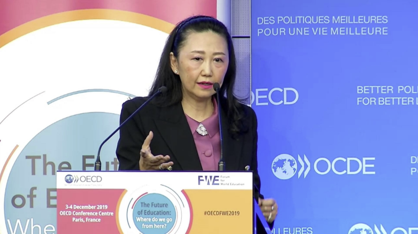 Varnnee Chearavanont Ross's photo was taken when she was a main speaker in "The Future of Education" Event in OECD Forum for World Education 2019